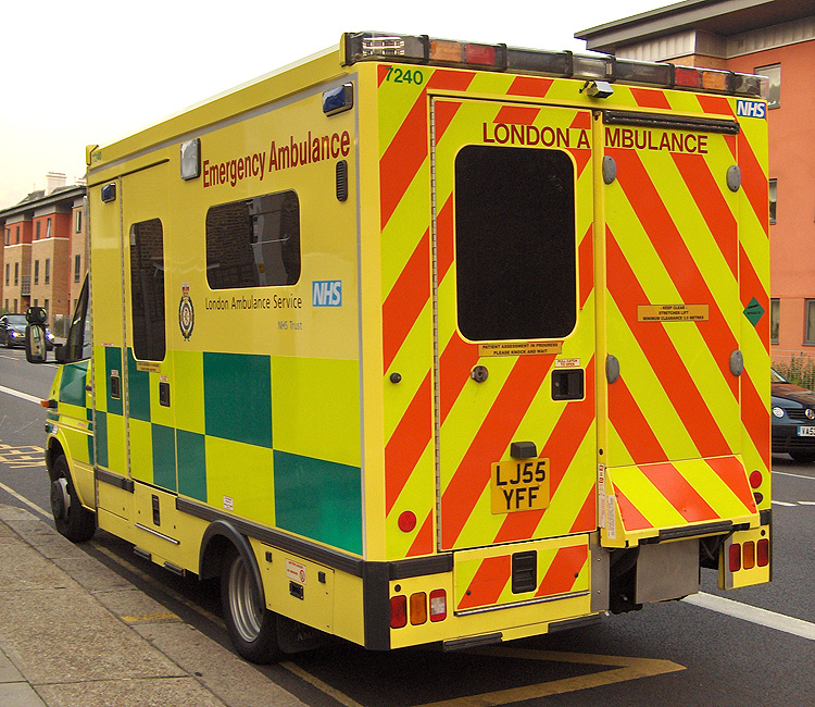 Rear view of Mercedes Sprinter London Ambulance, seen outside Chiswick Ambulance Station (September 2006)